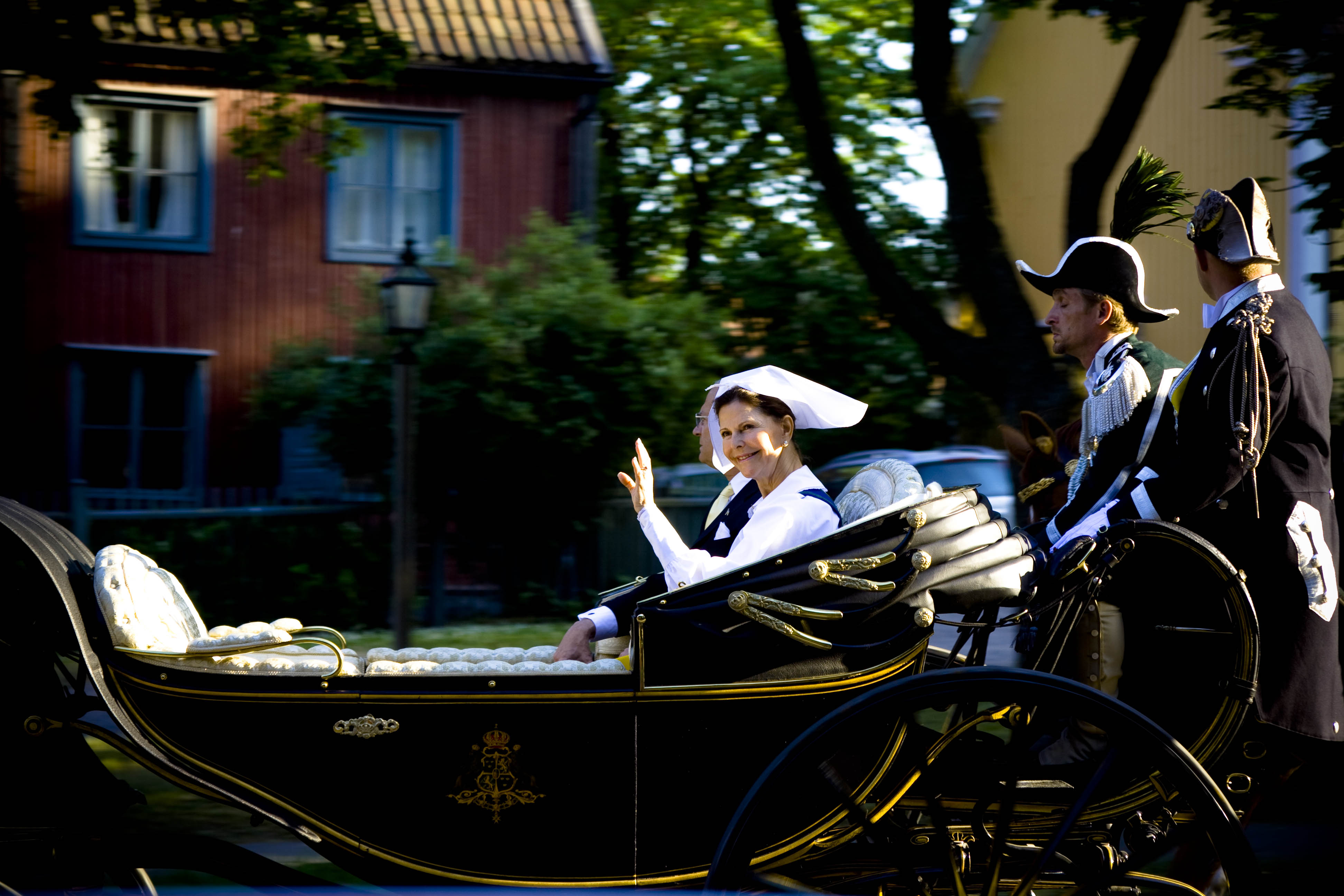 The swedish queen Silvia